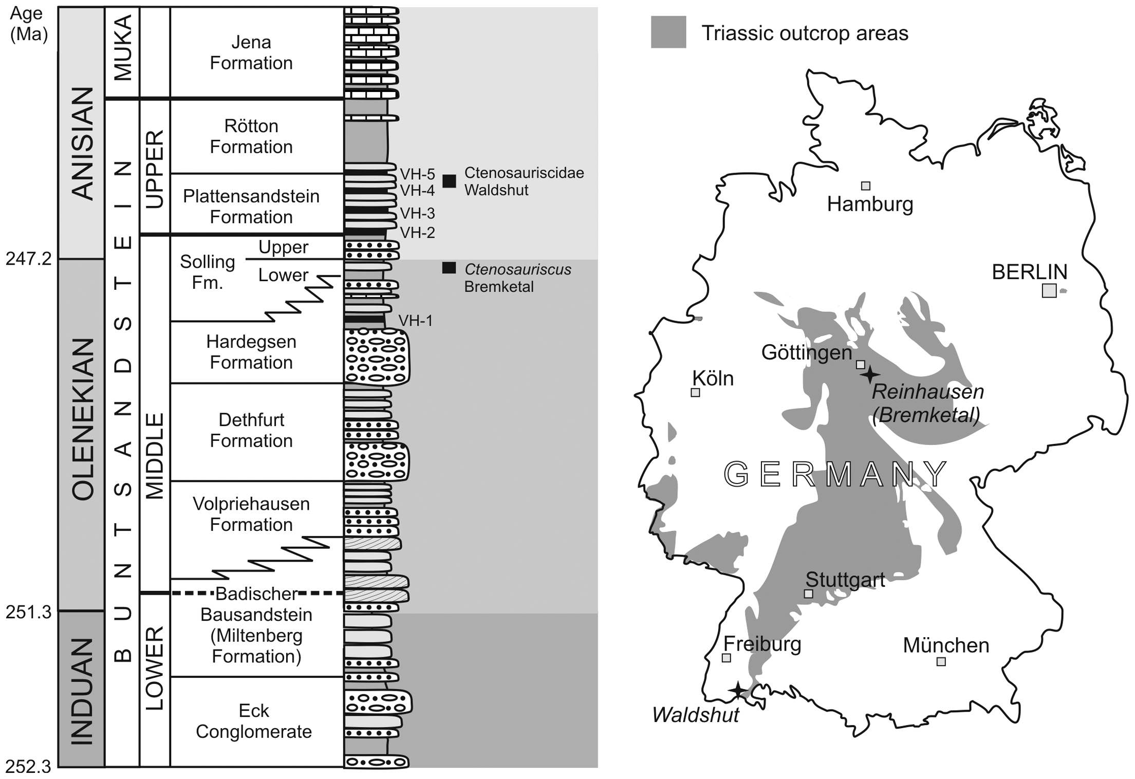 Stratigraphic and geographical data for German ctenosauriscid specimens